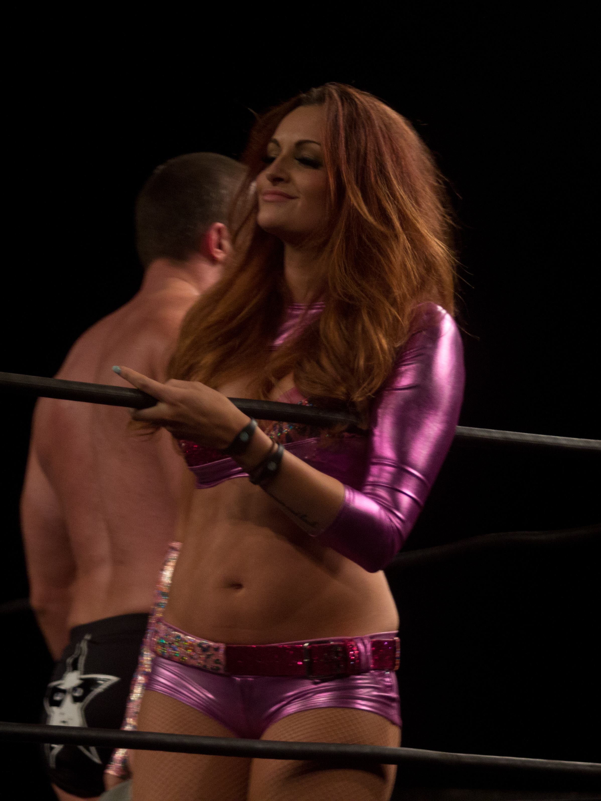 Maria Kanellis in the ring at a Ring of Honor show in September 2013. Cropped from original.